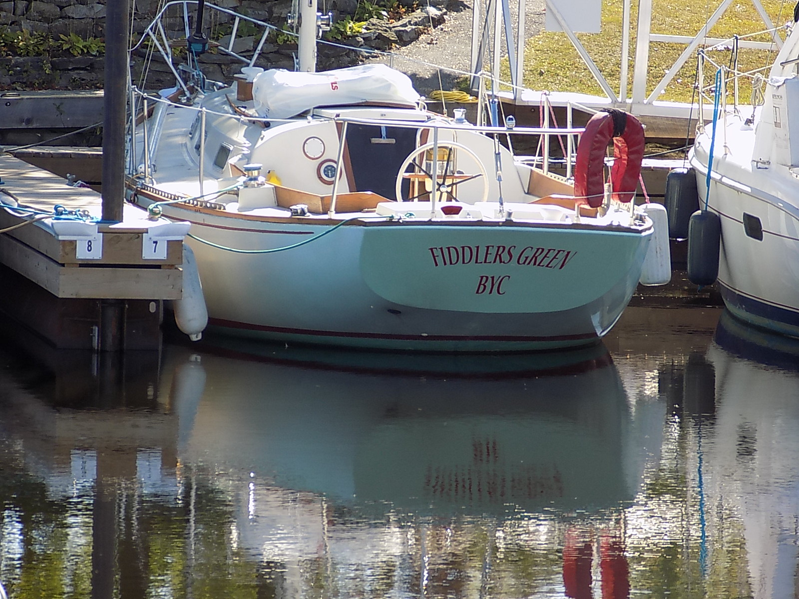 A Frigate 36 sailboat named Fiddler's Green II.